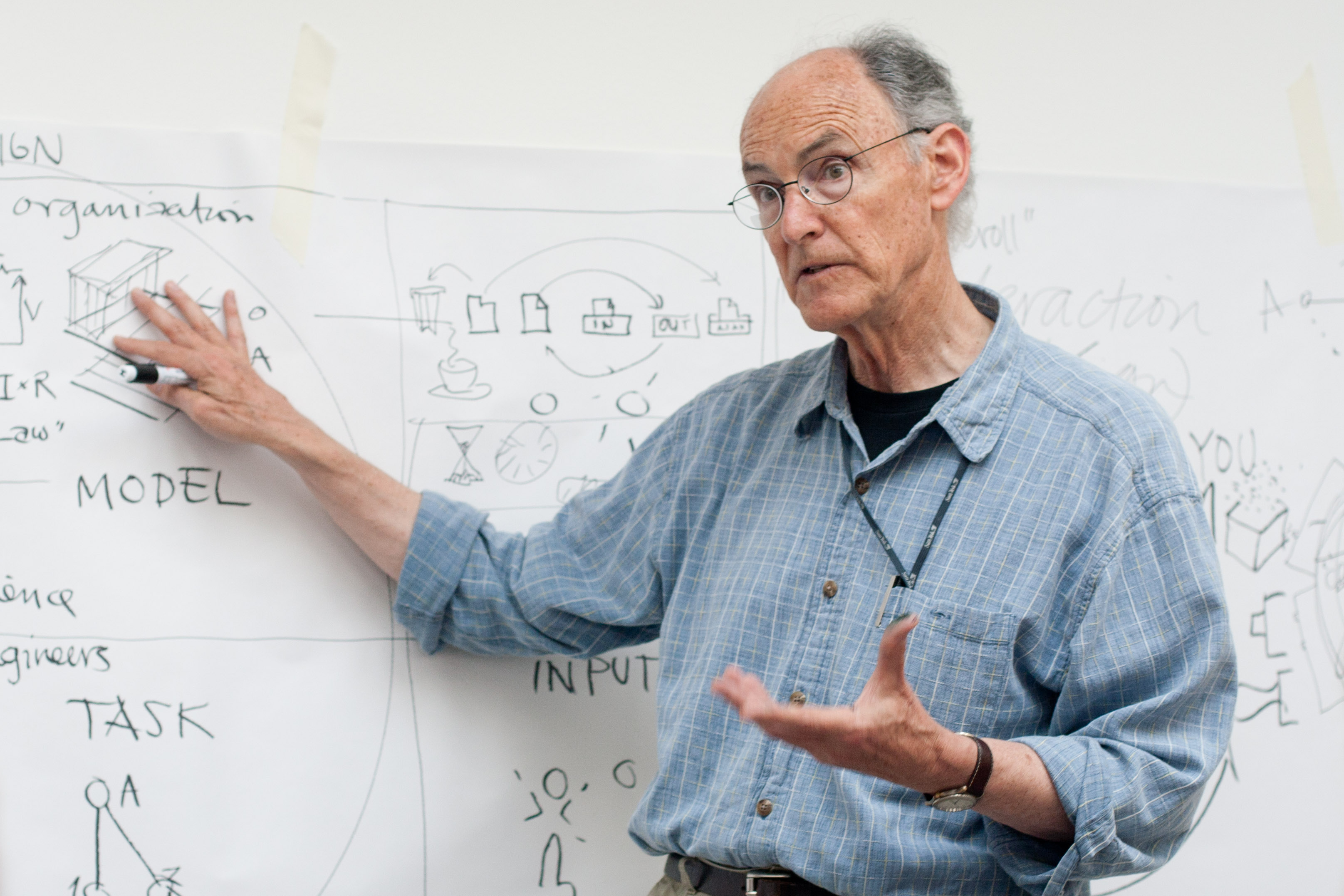 Bill Verplank giving one of his trademark sketching lectures at the Copenhagen Institute of Interaction Design, July 2010